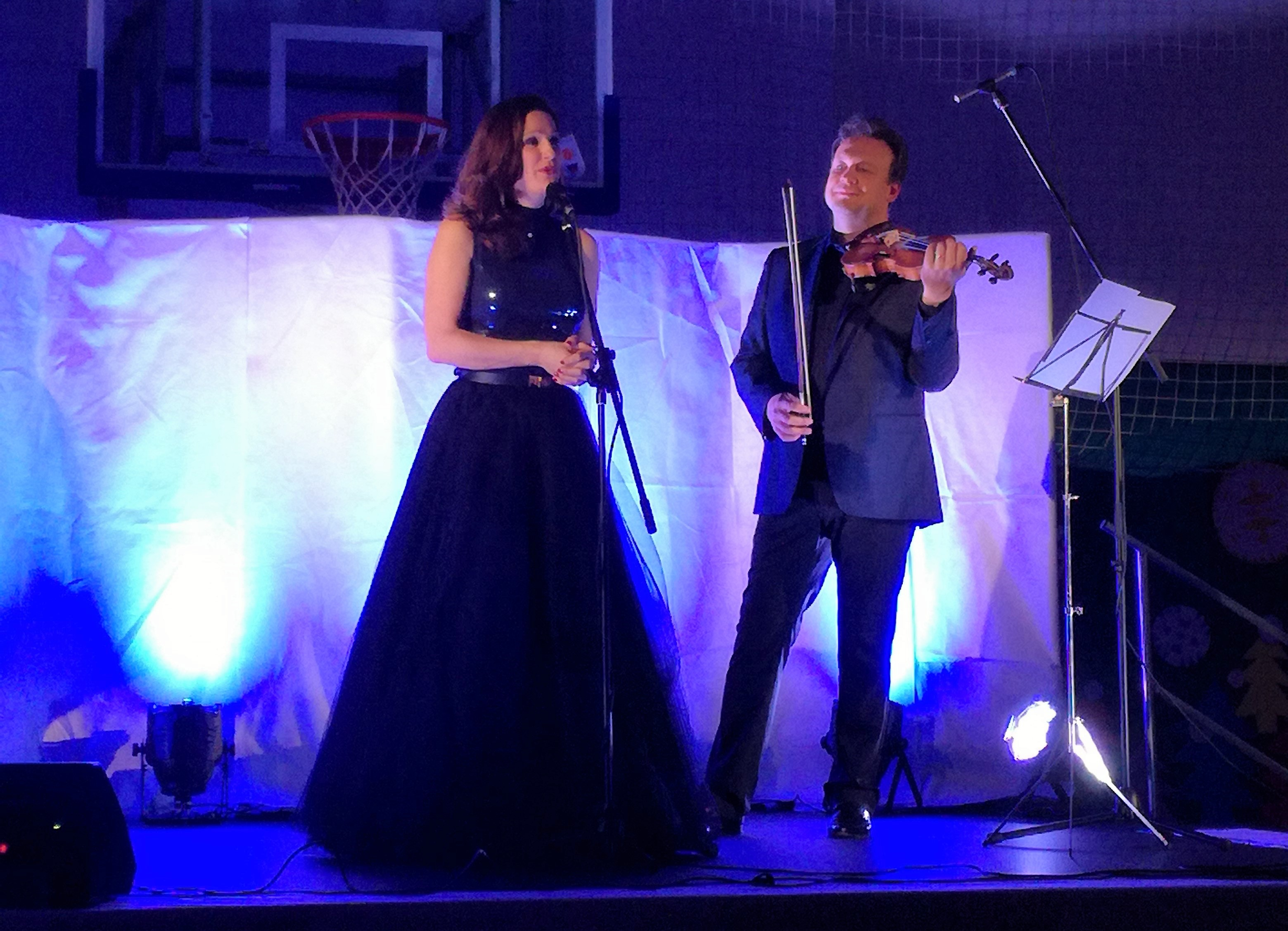 Manca Izmajlova and husband, Benjamin Izmajlov (2018)